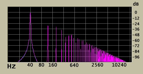 This is the spectrogram of a 40 Hz sine wave tone that was generated at maximum volume, 0 dBFS, then amplified by one decibel such that it is pushed into hard digital clipping. The overall volume increase is by 0.62 decibels. The harmonics which are generated are odd-order, skipping the even-order harmonics.